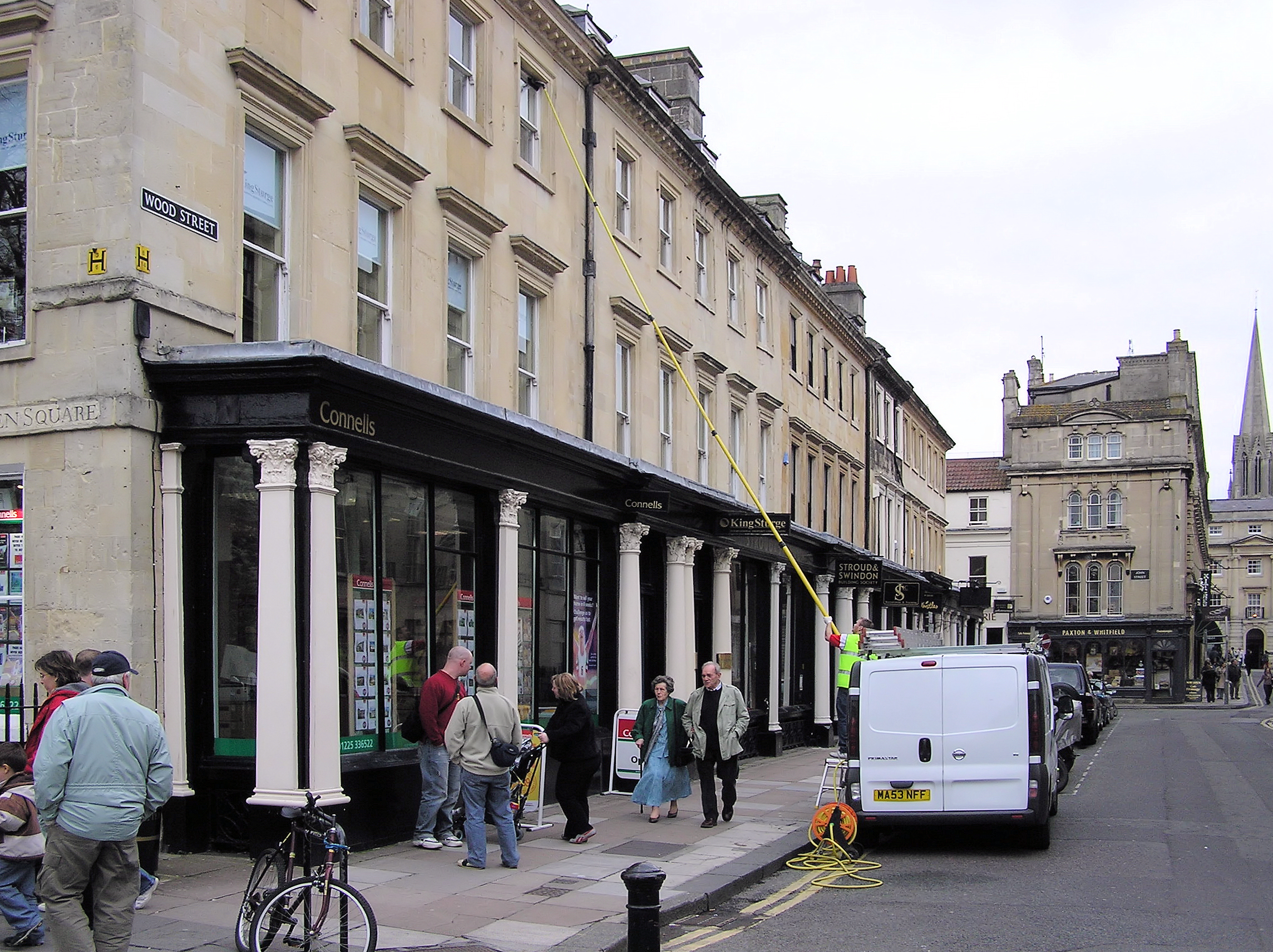 Window cleaning with a pole, in Wood Street, Bath, England.